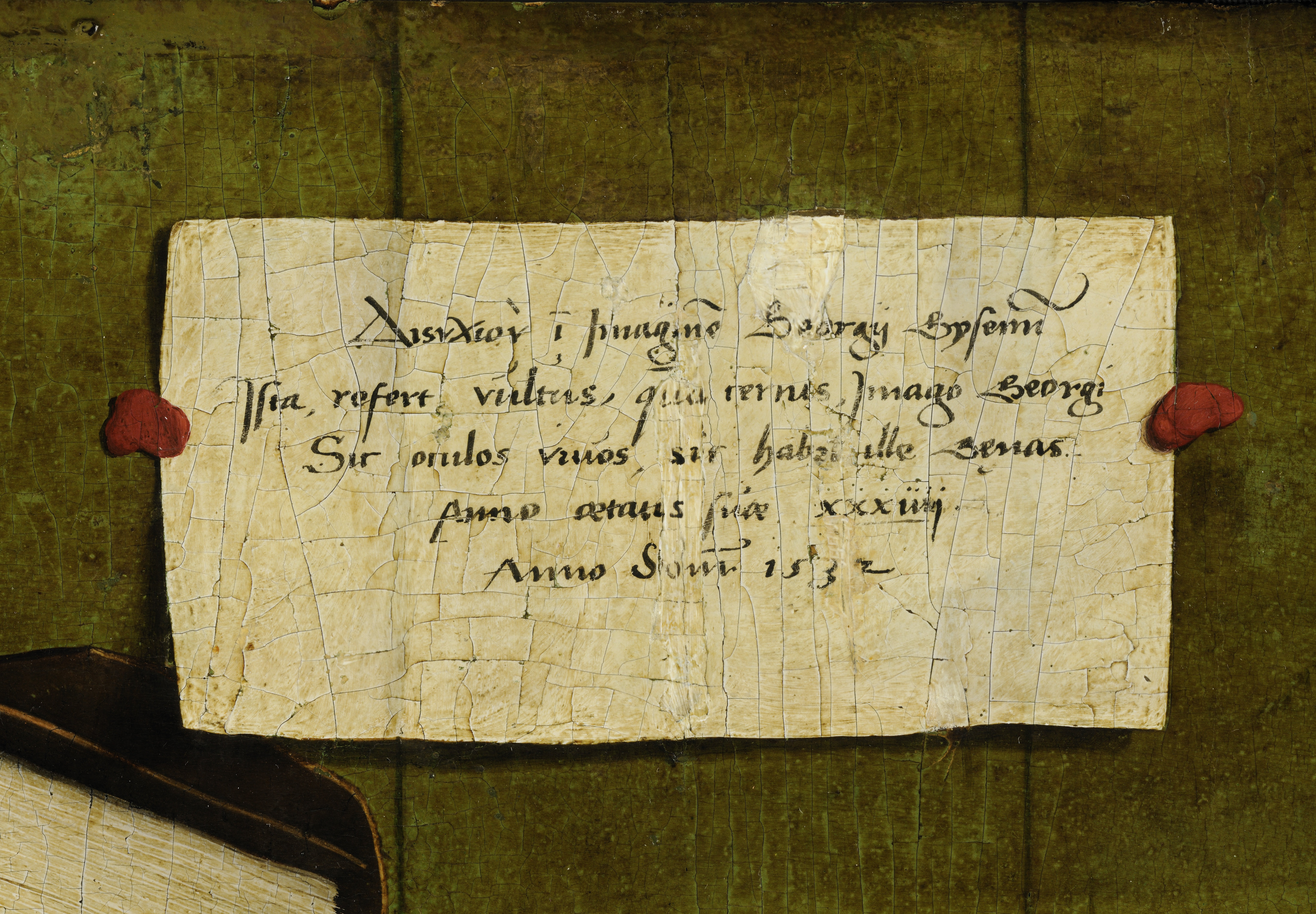 Detail of Portrait of the Merchant Georg Gisze. The latin poem (with Greek title) Διςνχων i Imagine Georgii Gysenii Ista, refert vultus, qua cernis, Imago Georgi Sic oculos viuos, sic habet ille genas Anno aetatis suae xxxiiij Anno dom 1532 means Distichon on George Gisze's picture That what you see is George's picture, showing his features, how vivid his eyes are and how his cheek is formed In his 34th year of age A.D. 1532